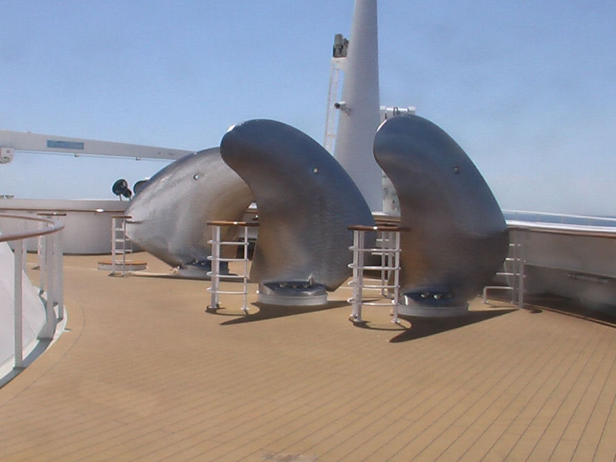 Some of the propeller blade spares carried on the forward deck of RMS Queen Mary 2.